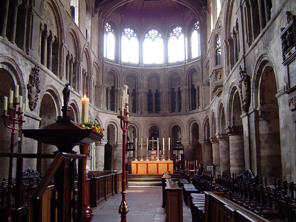 St Bartholomew the Great, interior view Image by ChrisO